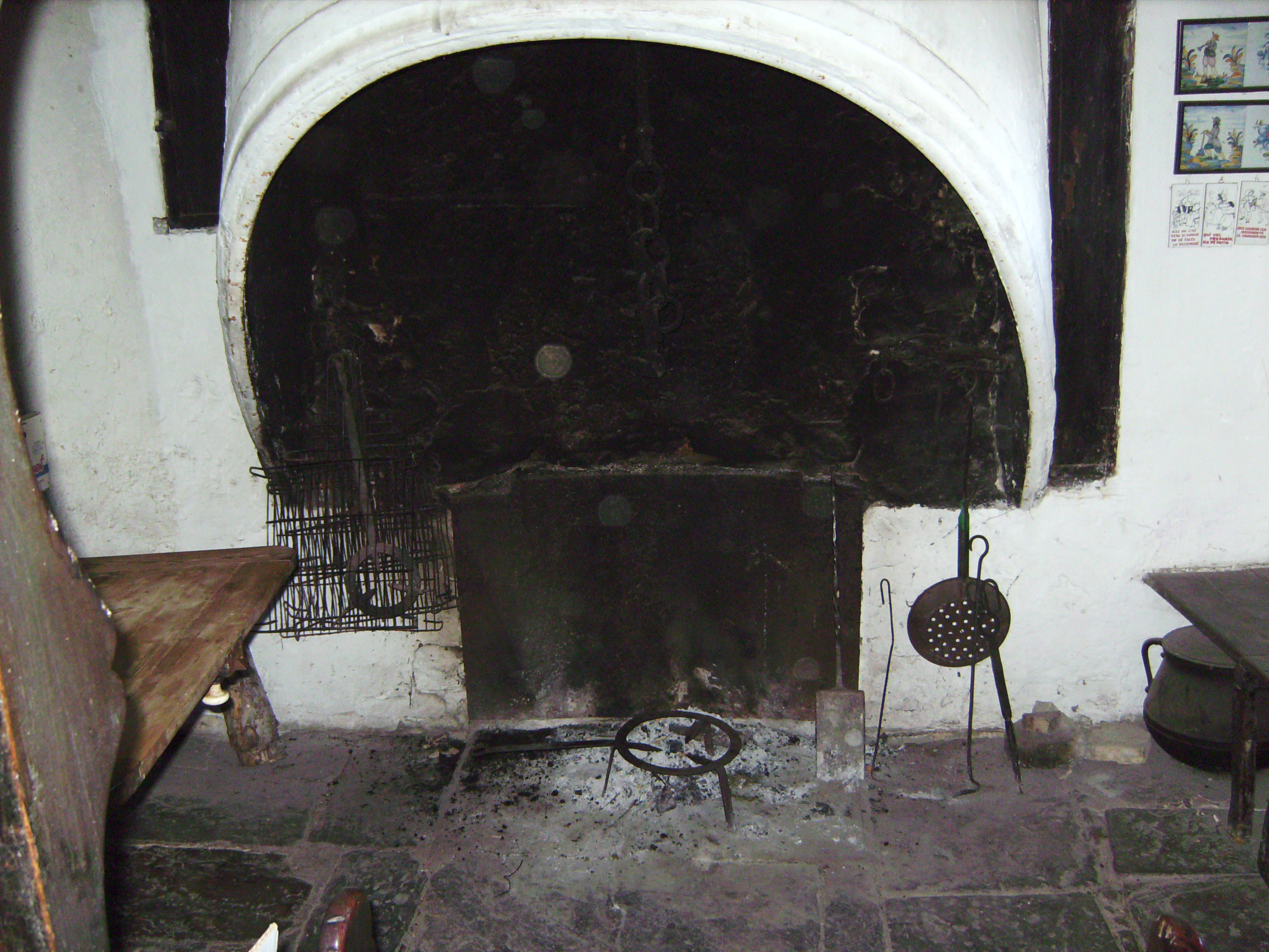 Traditional catalan fireplace at Castelltallat, Catalonia